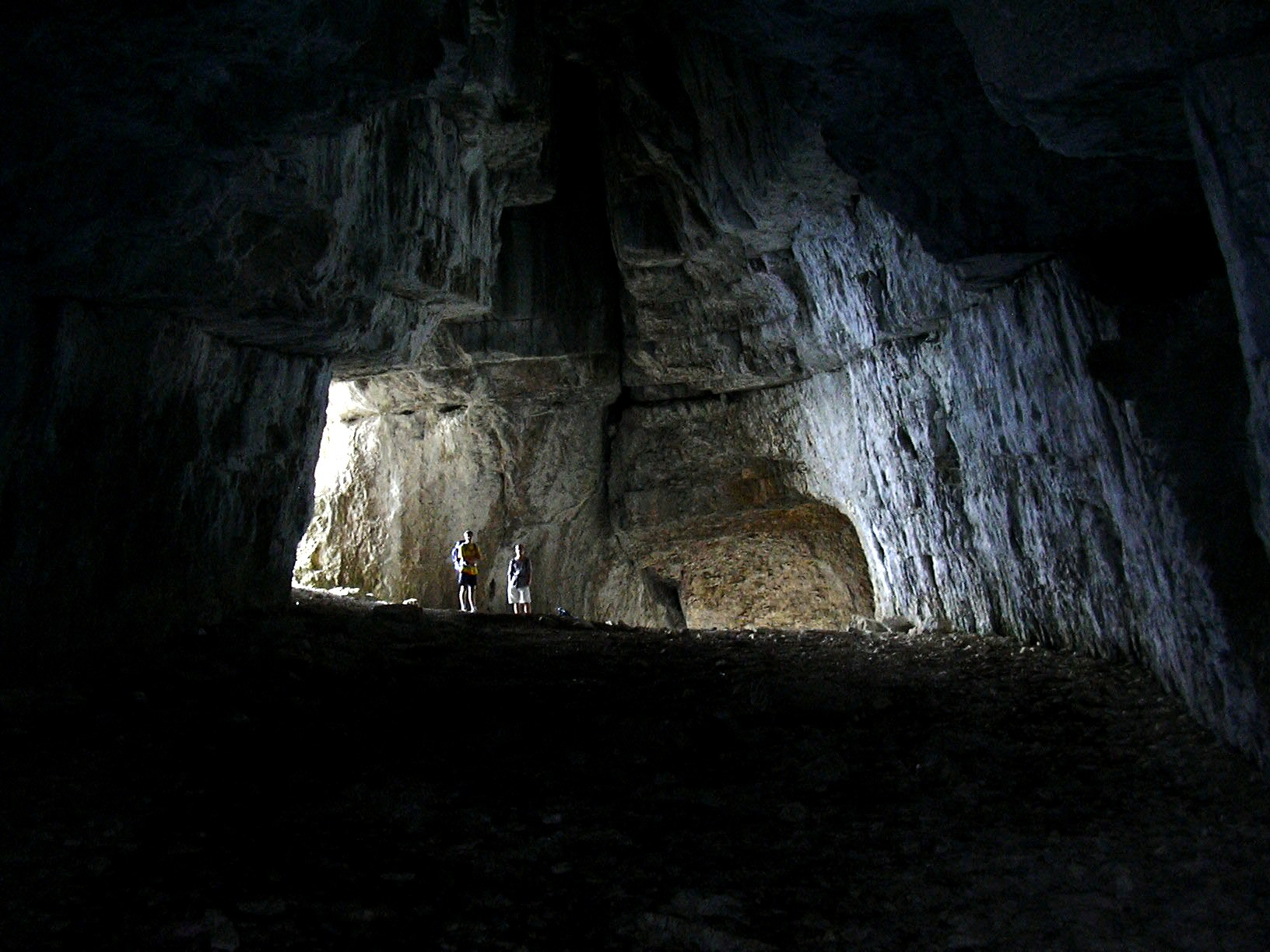 The "bears" cave, or "Balme à Colon" on the way to the top of the Mont Granier from La Plagne. Photograph by french wikipedia user 3Samz in july 2004.